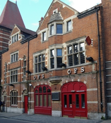 OFS Studio Theatre, Oxford, England